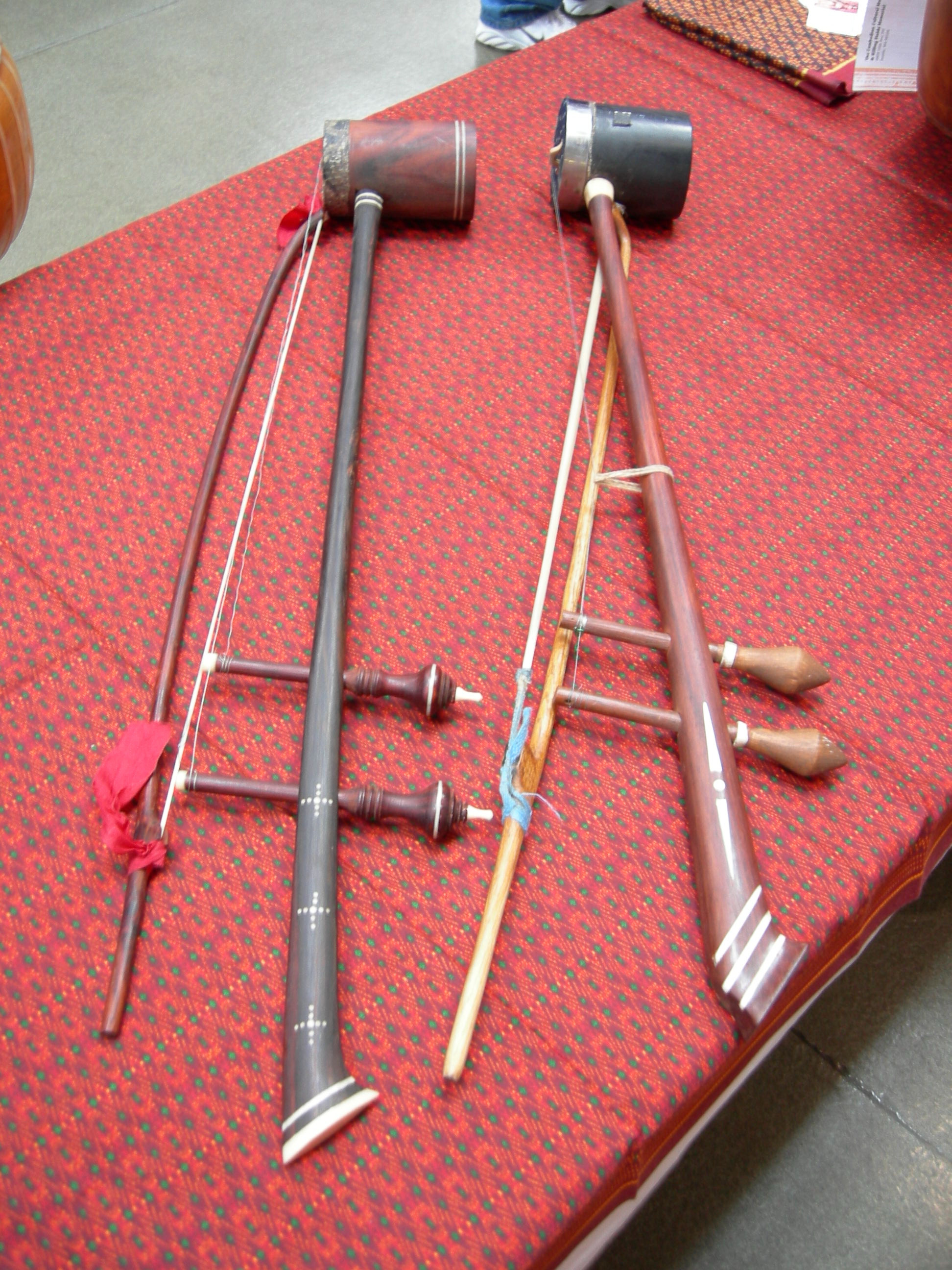 A pair of tro (Khmer stringed instruments) and their bows, photographed at API (Asian Pacific Islander) Heritage Month Festival, part of Festál at Seattle Center, Seattle, Washington.